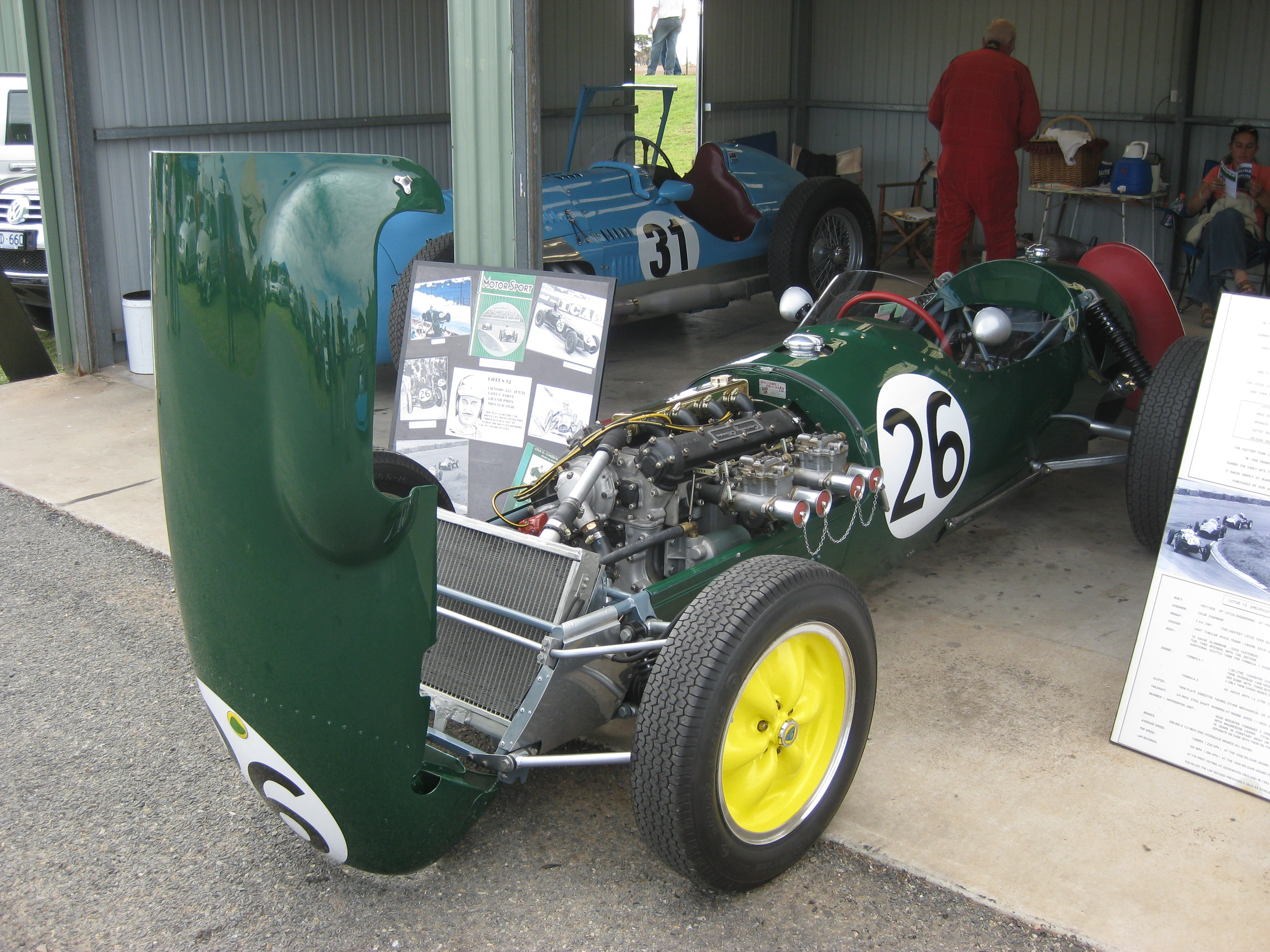 Lotus 12 Formula One car, chassis No 353, at Mallala Motor Sport Park in 2010. This was the first Lotus to be entered in a Grand Prix (Monaco 1958) and was Graham Hill's first Grand Prix entry.